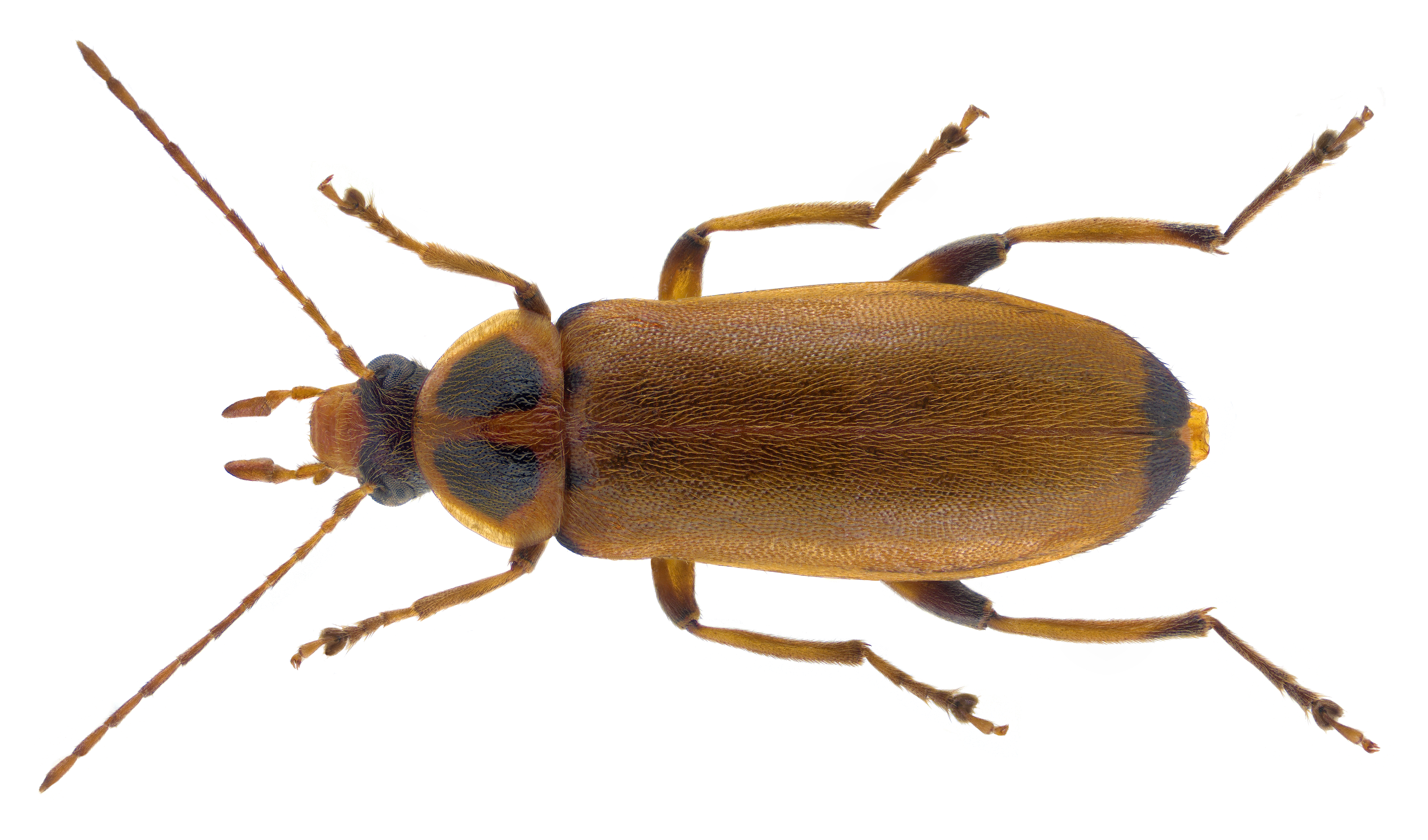 Osphya bipunctata (Fabricius, 1775) Female Family: Melandryidae Size: 8.1 mm (5.0 to 11.0 mm) Distribution: South England to Caspian Sea Ecology: Development in rotten hardwood, imagines on blooming shrubs Location: England, Hunts, Monks Wood leg.det. D.R.Nash, 18.V.1980 Coll. Oxford University Museum of Natural History Photo: U.Schmidt, 2018